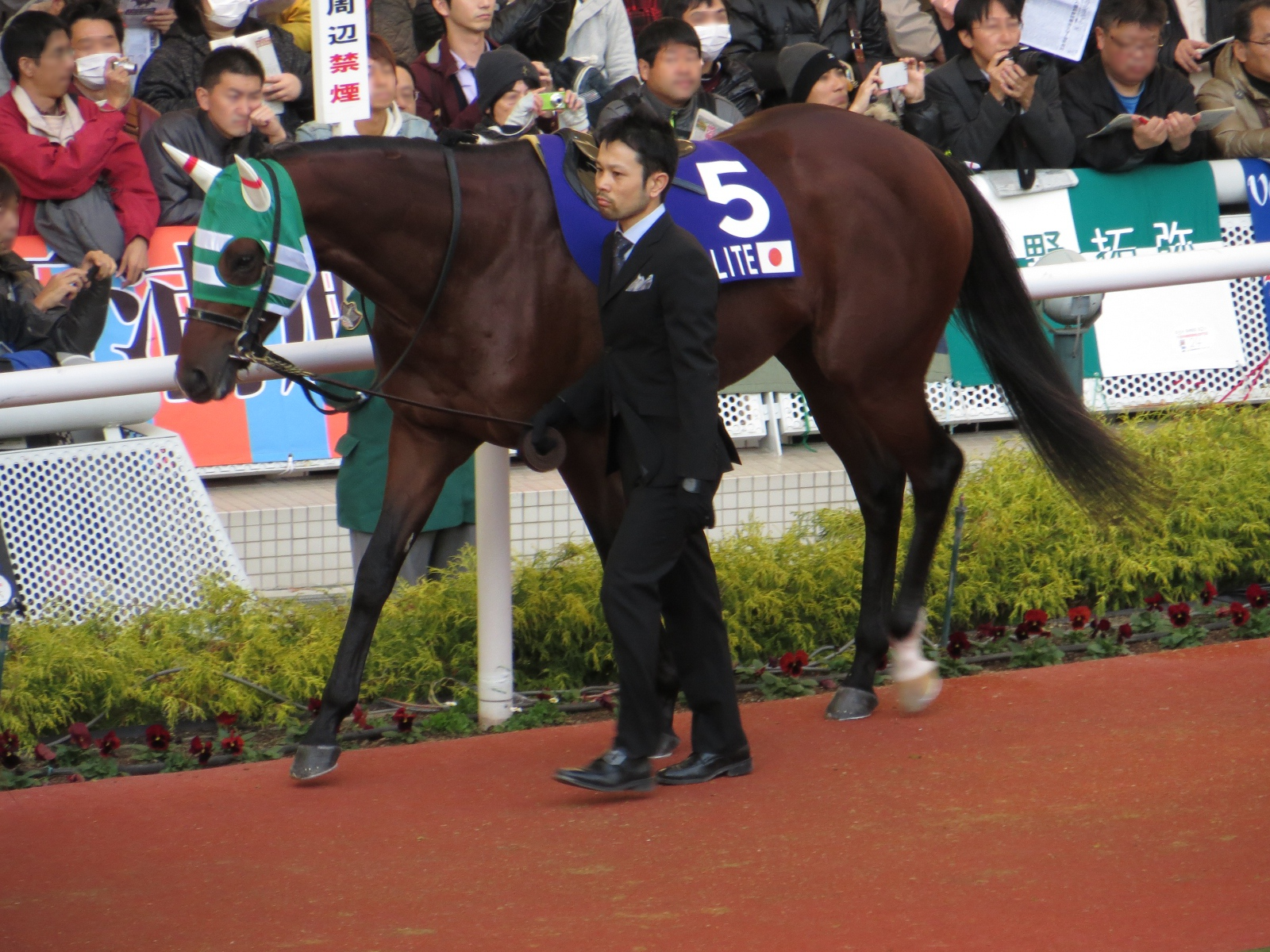 Chrysolite (Racehorse of Japan).